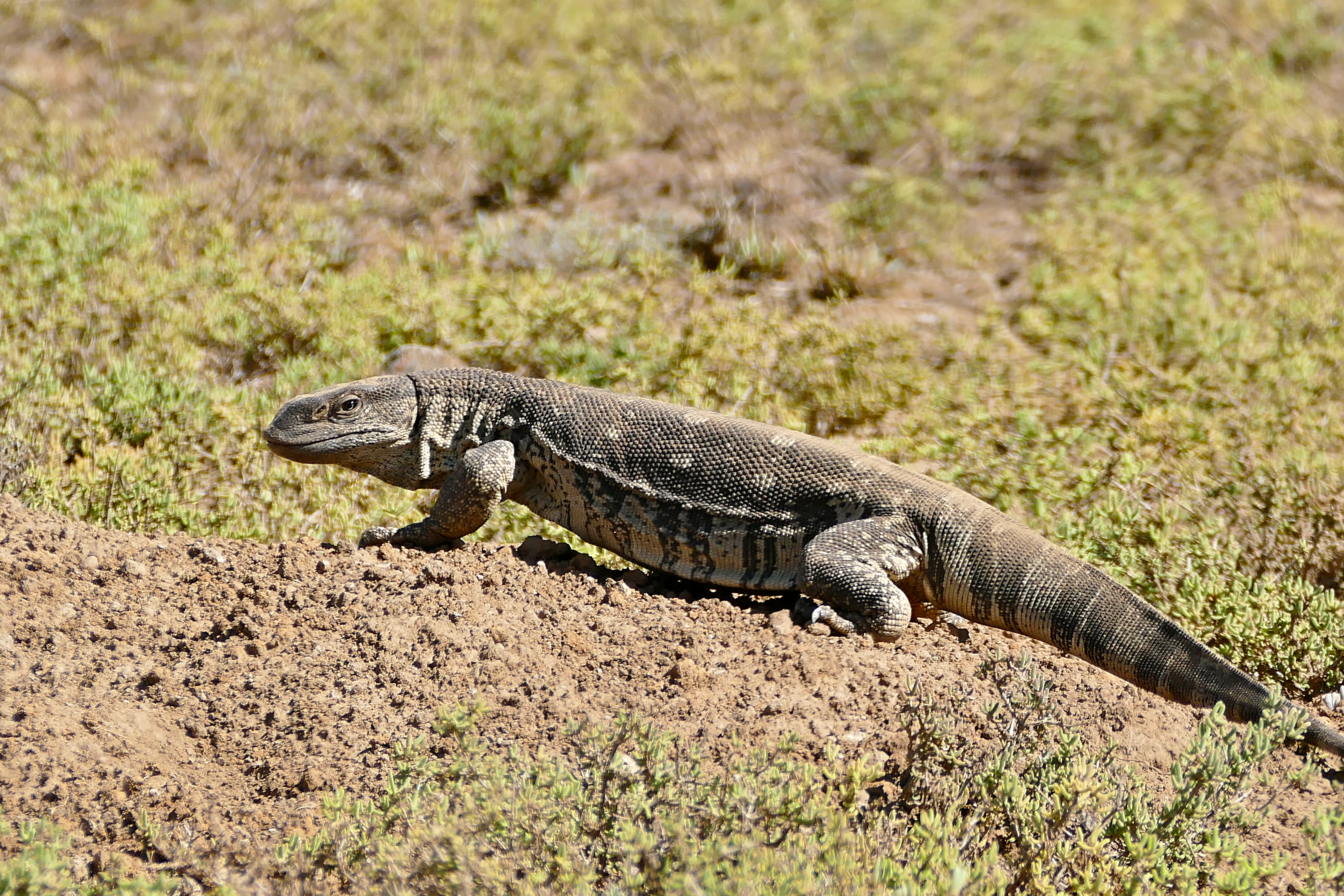 Ubejane Loop, Mountain Zebra NP, Eastern Cape, SOUTH AFRICA